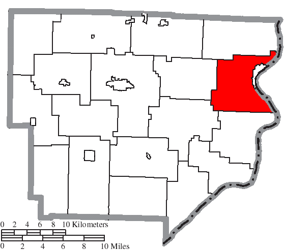 Map of the municipal and township boundaries of Monroe County, Ohio, United States, as of the 2000 census, with the location of Salem Township highlighted. Township borders are shown only in unincorporated areas in order to differentiate incorporated and unincorporated areas more clearly.